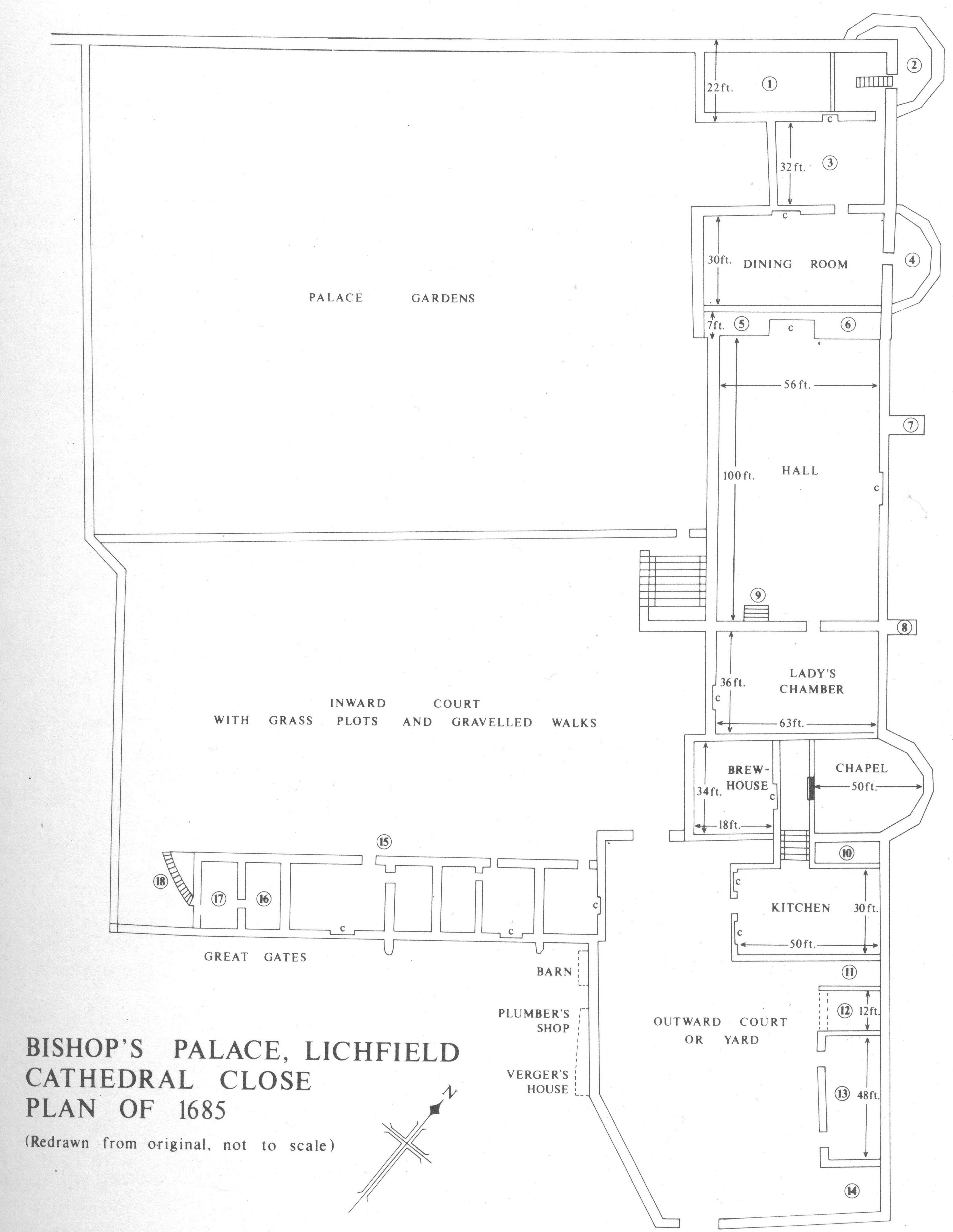 Bishop's Palace, Lichfield Cathedral Close, plan of 1685. Key: 1: Lodging or other room 2: Tower, 52ft high, each edge 13ft on the outside 3: Bishop's Lodging room 4: Second tower, each edge 10ft 5 & 6: Pantry 7 & 8: Buttery (i.e. buttress) made out into the Dimples 9: Stairs into passage under Ladies Chamber 10: Open ground for a sough for the rain water from the roofs of the chapel and kitchen 11: Open ground for pens for poultry etc. 12: Coach house with folding doors 13: Stables 14: Where there was a dunghill 15: Lodging rooms for the Bishop's gentlemen, 20ft high 16: Porter's chamber over gateway 17: Gatehouse chamber over gateway 18: Stairs up side of buttress